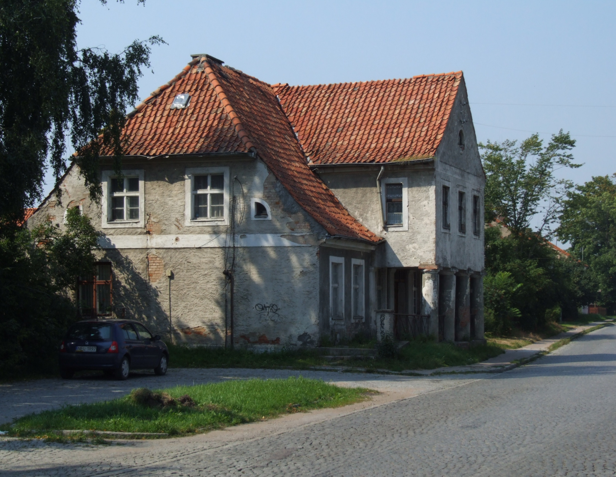 Prostki (Prostken) - building (probably restaurant) on the former border between Germany and Poland (to 1918 Russia); German side